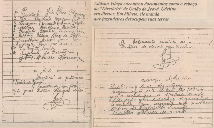 Esboço_do_Diretório_de_União_de_Jeová